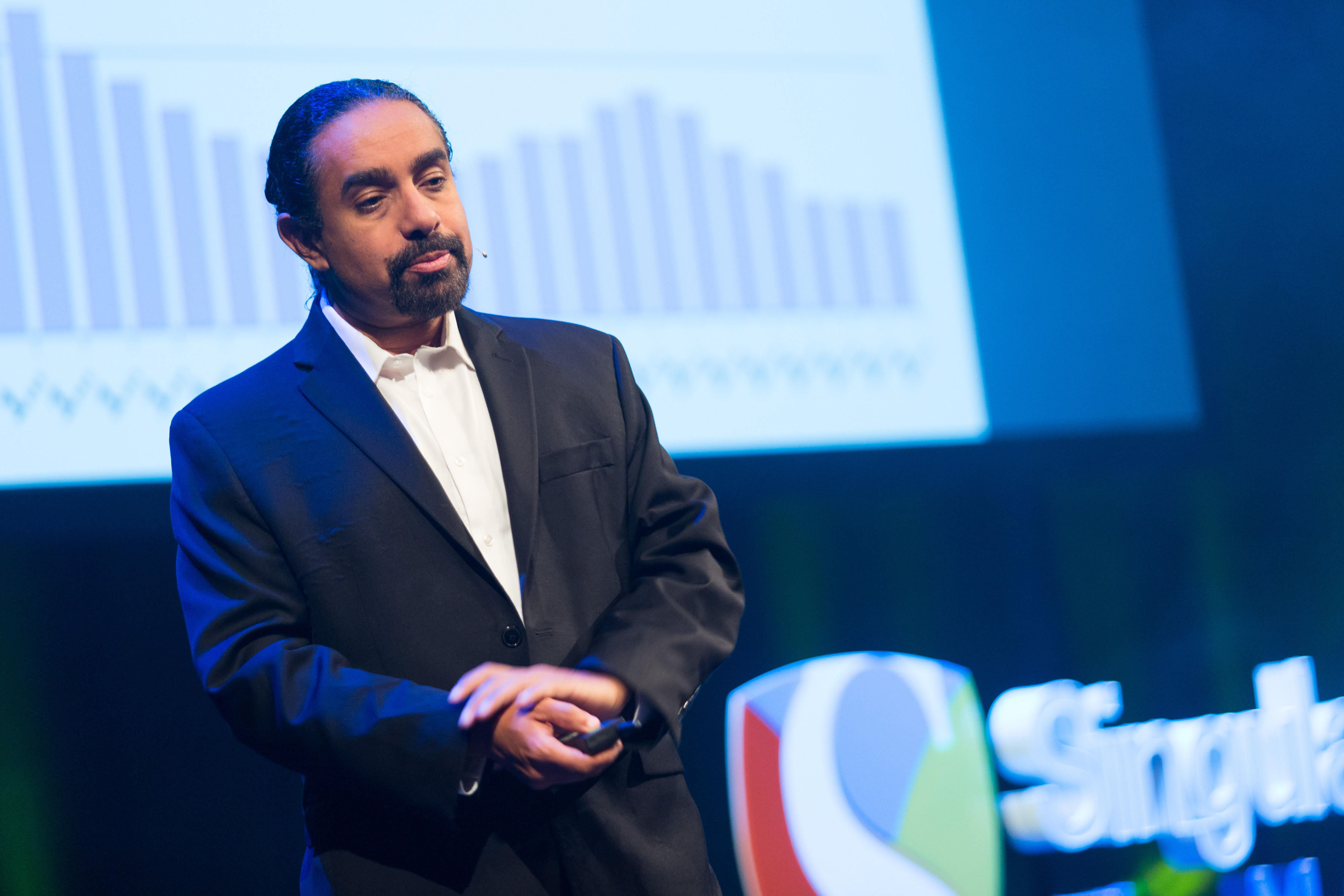 The SingularityU The Netherlands Summit 2016 took place on September 12 & 13 in Amsterdam, The Netherlands. The Netherlands Summit was aimed at bringing awareness about exponential technologies and their impact on business and policy. The theme of the summit was "Reality Check - Fast-Forward into our Future". For more information